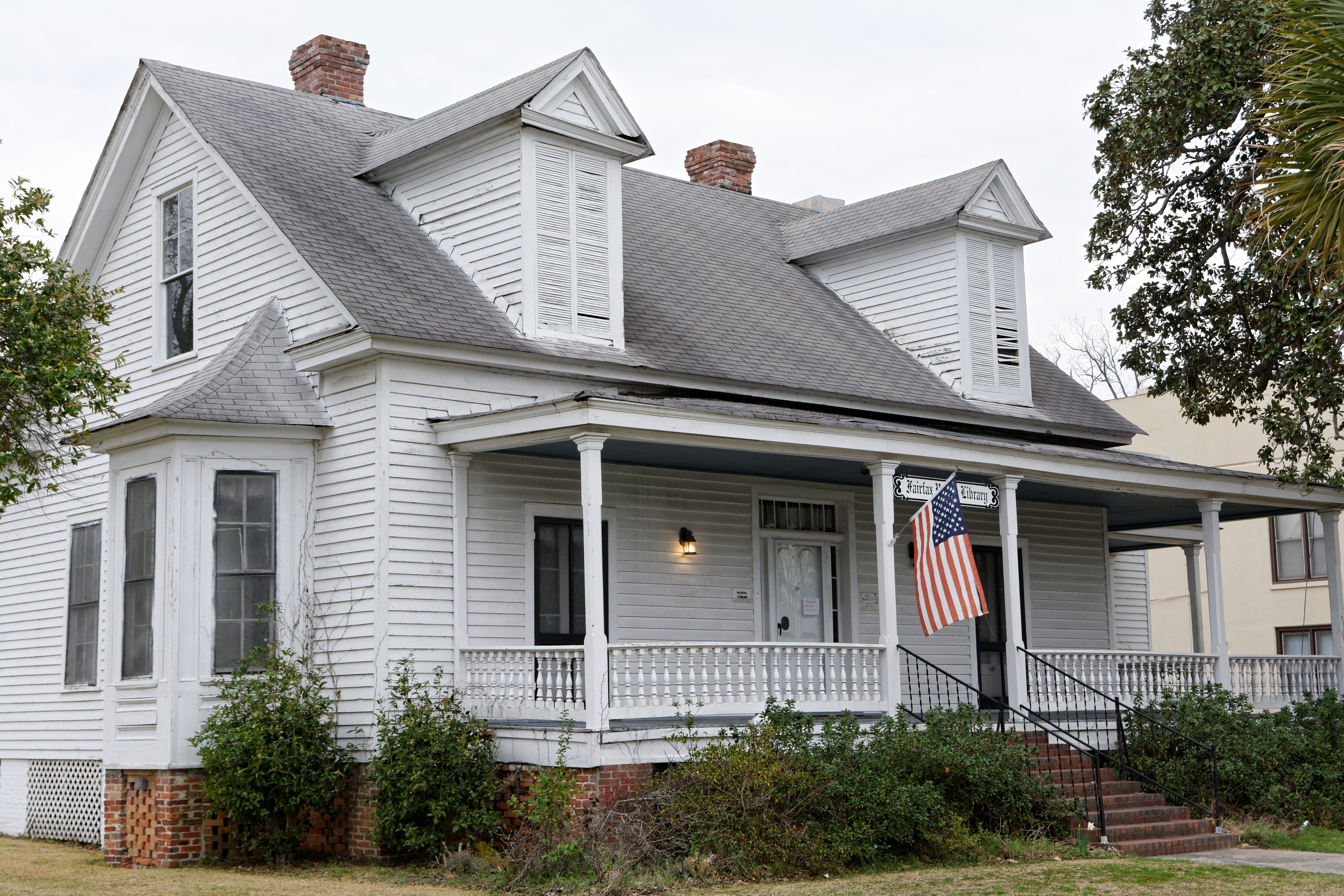 Virginia Durant Young house, Fairfax, South Carolina, U.S. Now houses the Fairfax Public Library.